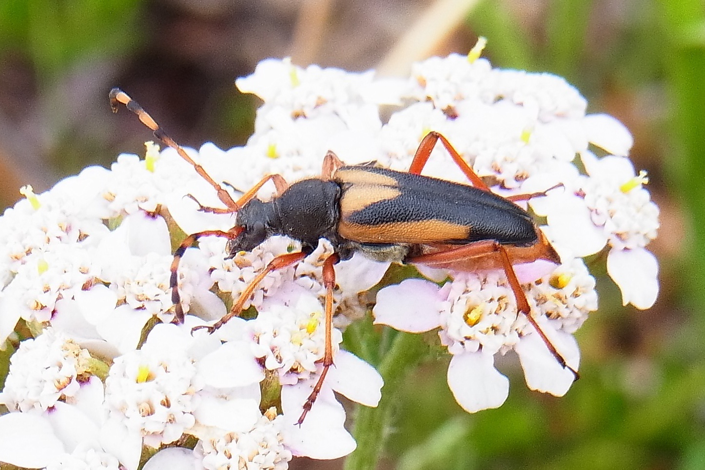 Cribroleptura stragulata from Spain, about 3o km northwest of Ponferrada, León